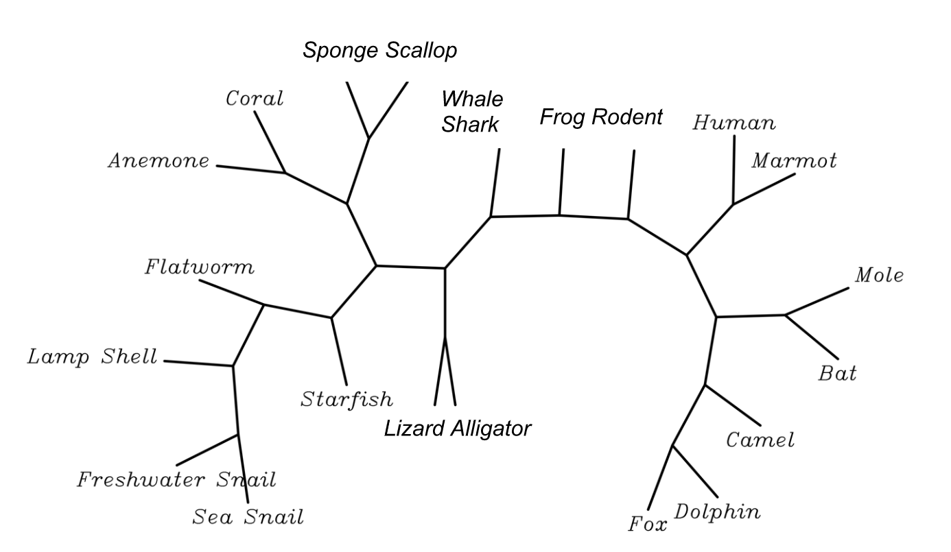 Unrooted c17orf98 Phylogenetic Tree